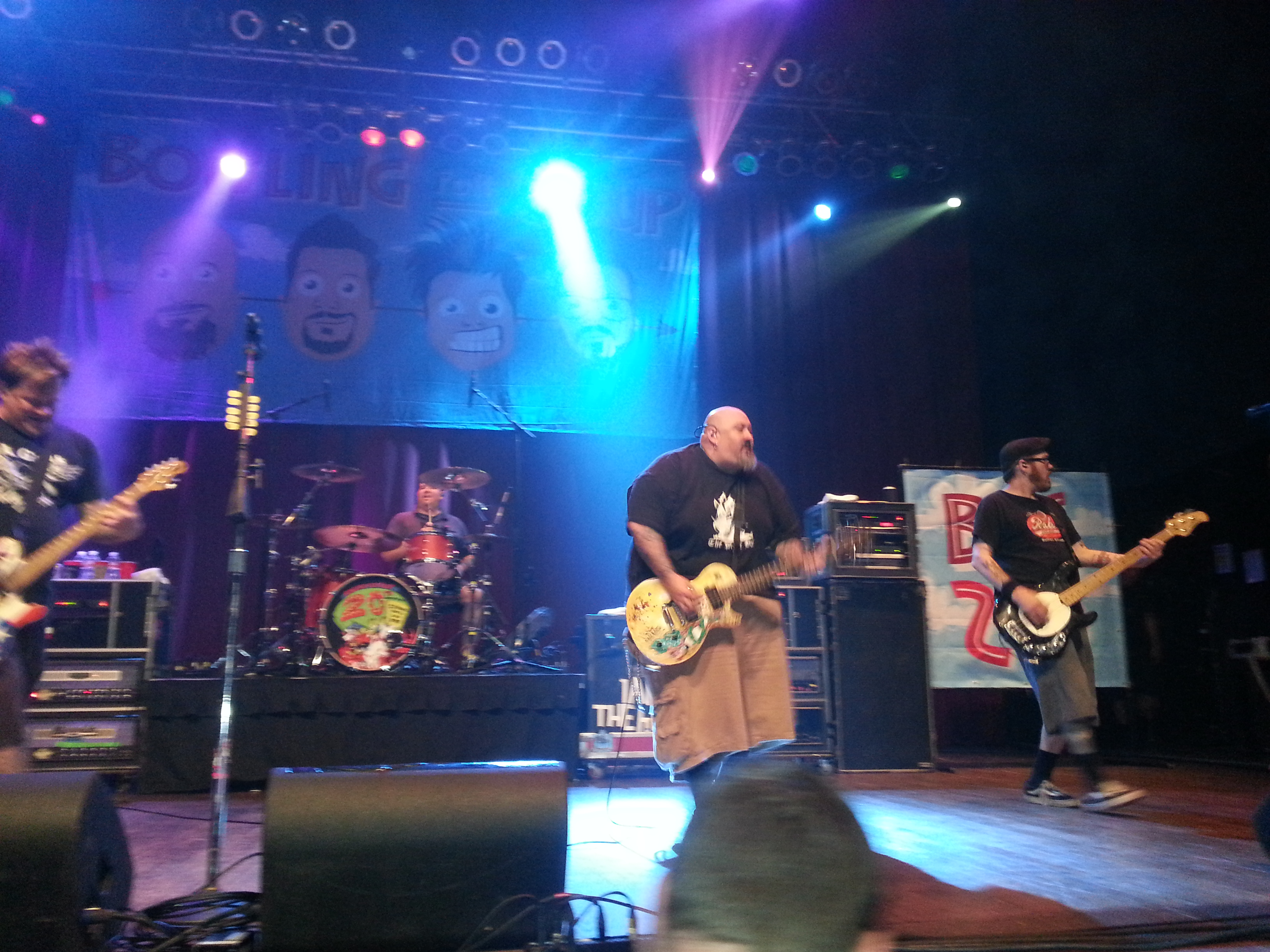 Bowling for Soup in June 2013